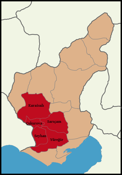 Metropolitan Districts of Adana